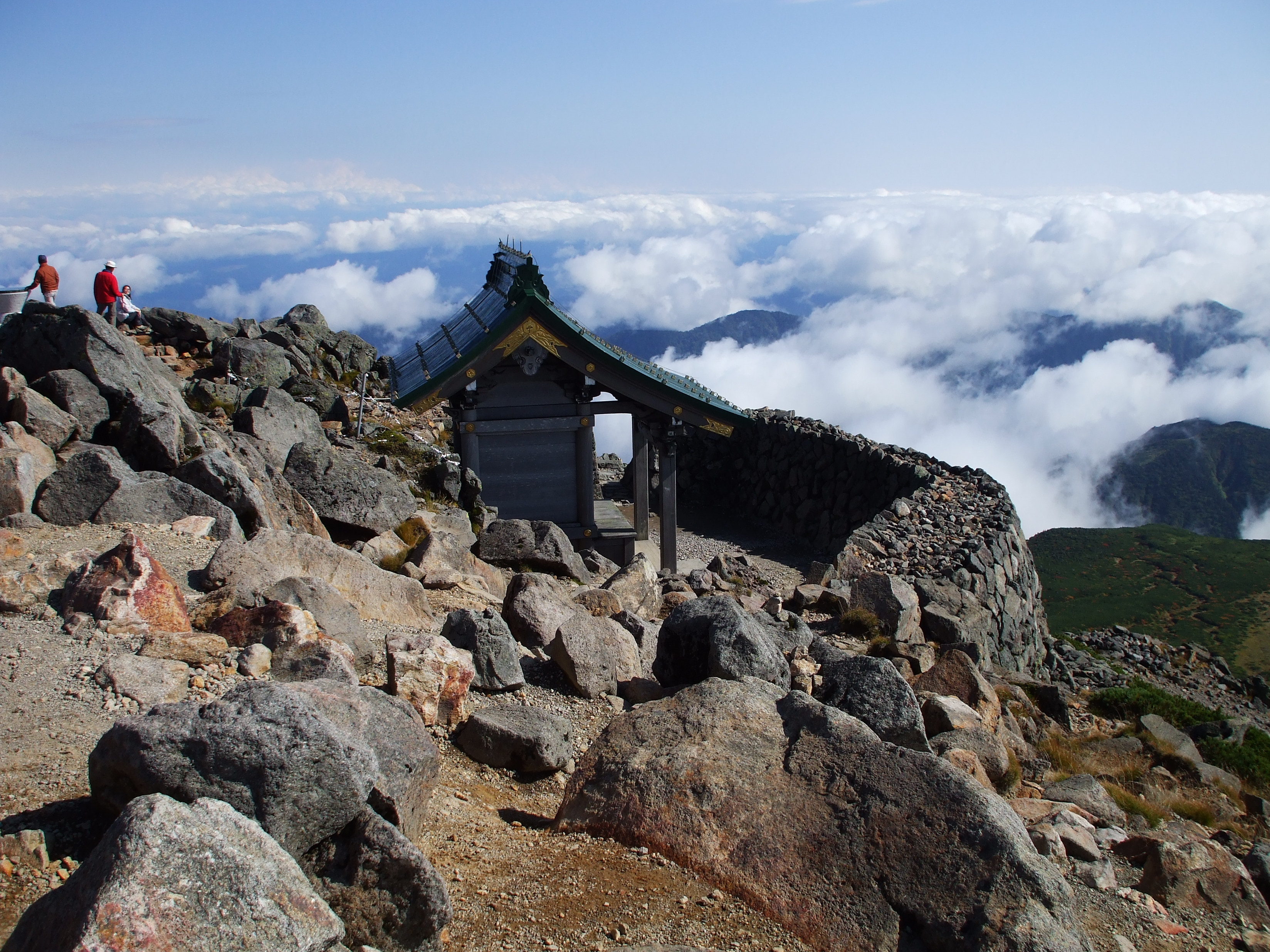 Hakusan Shrine of Hakusan Mountains, Honshu, Japan.